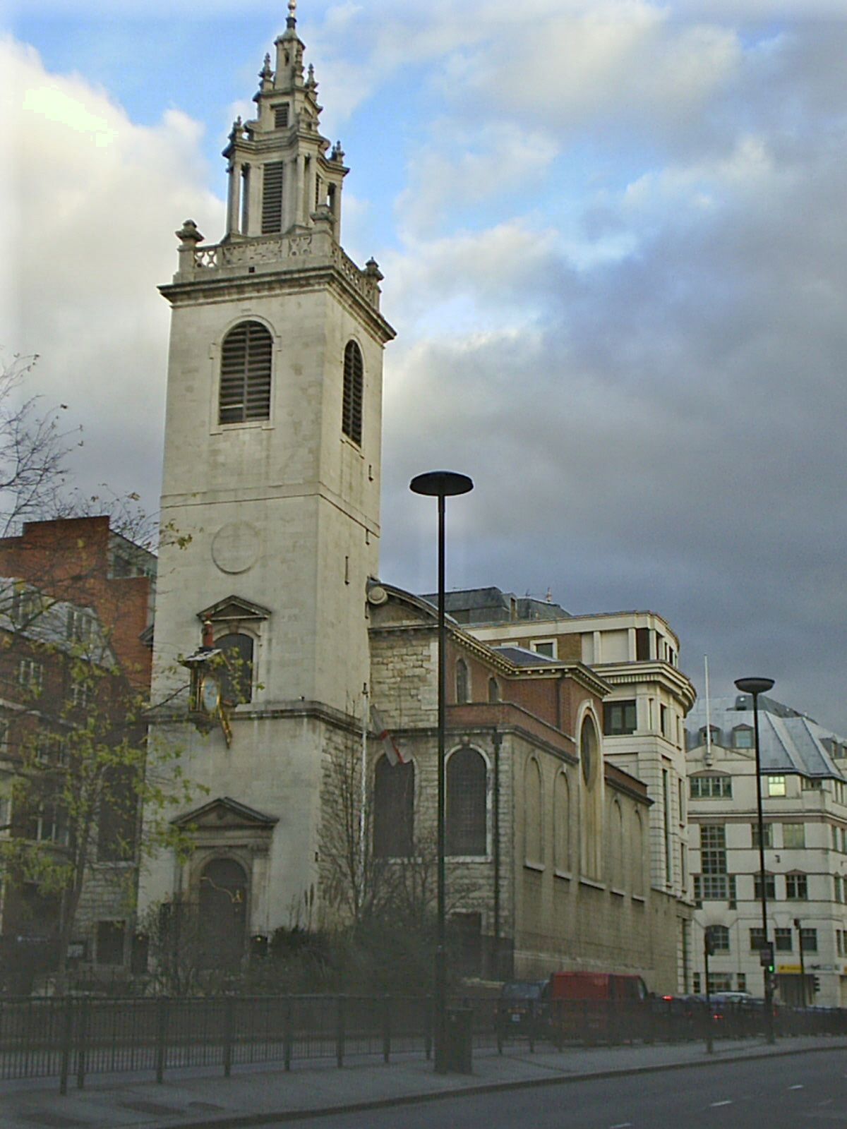 St James Garlickhythe, London